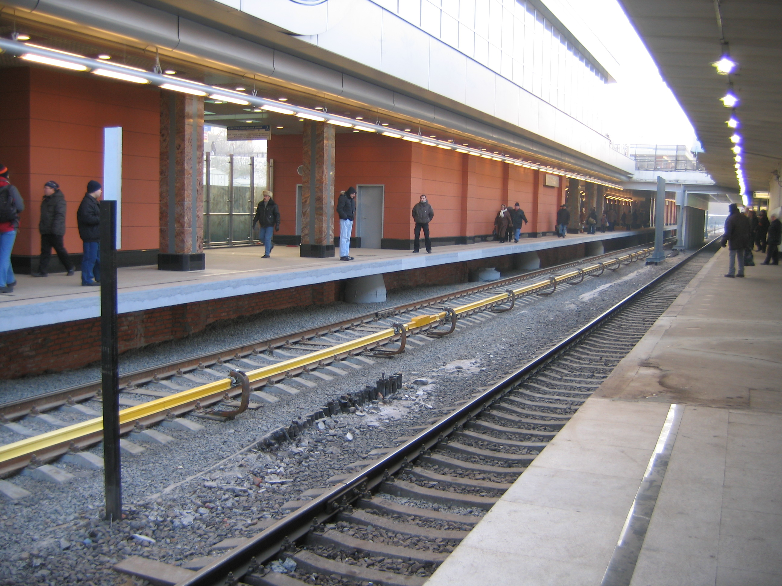 Kuntsevskaya subway station, Moscow, Russia